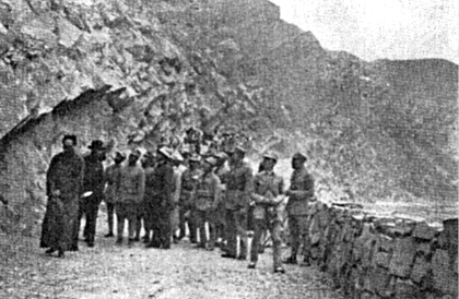 Republic of China Chinese muslim General Ma Hongkui inspects the construction of a highway in Qingtongxia.